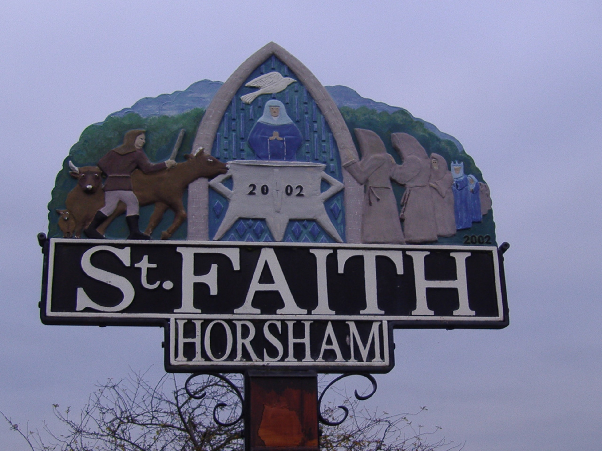 A Digital Photograph of the village sign at Horsham st Faith taken on the 2nd November 2007 by stavros1